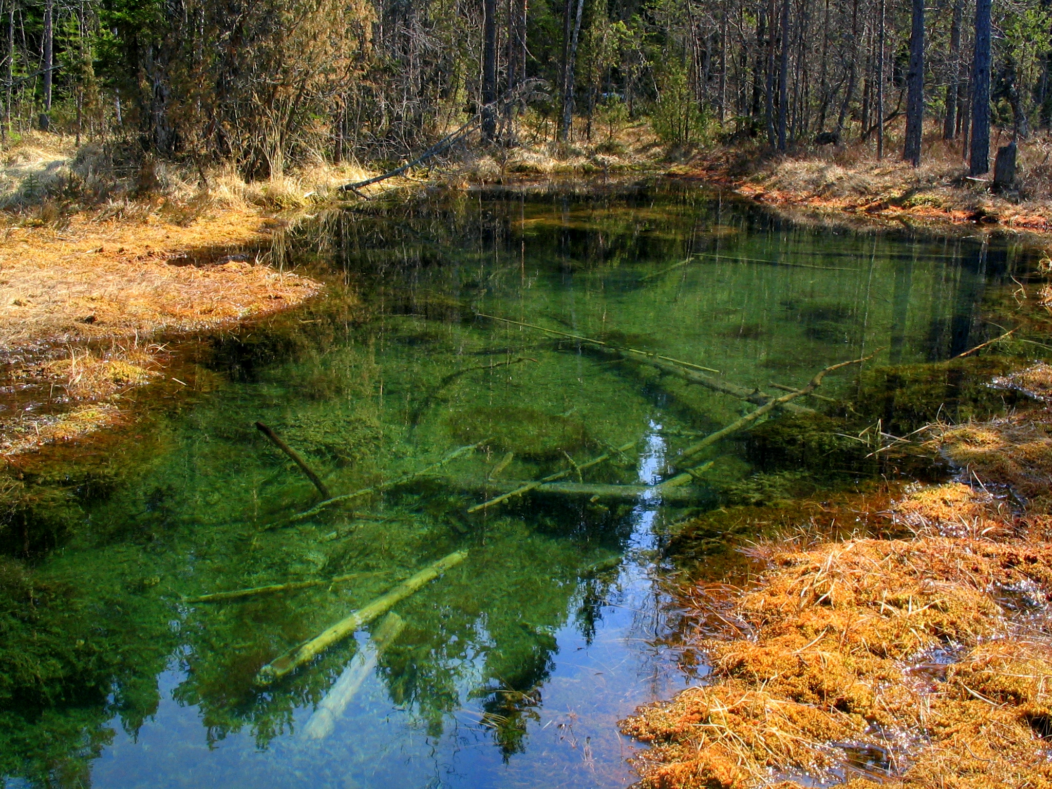 A spring in the Valkmusa national park in Finland.